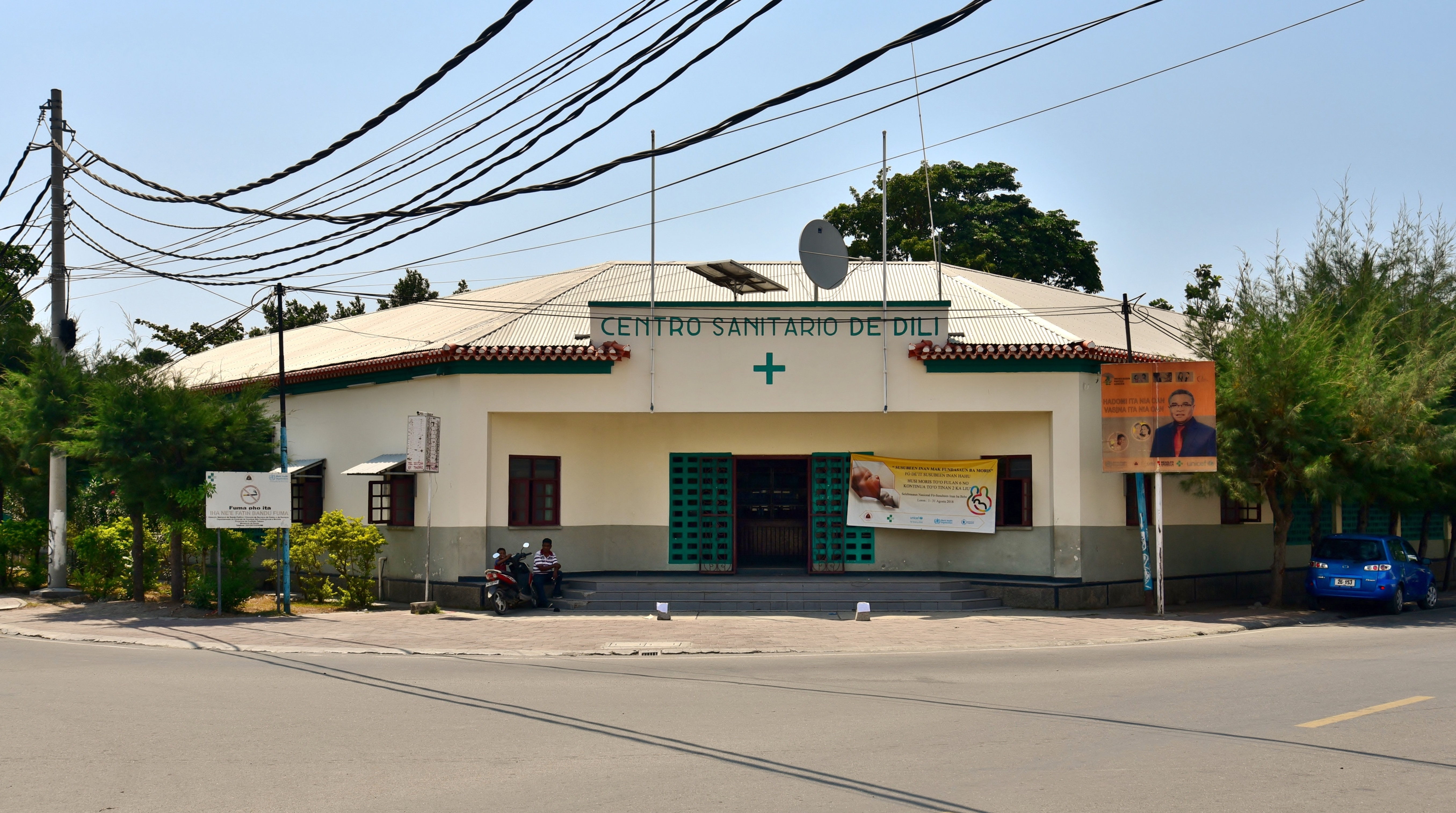 Centro de Saúde, Díli